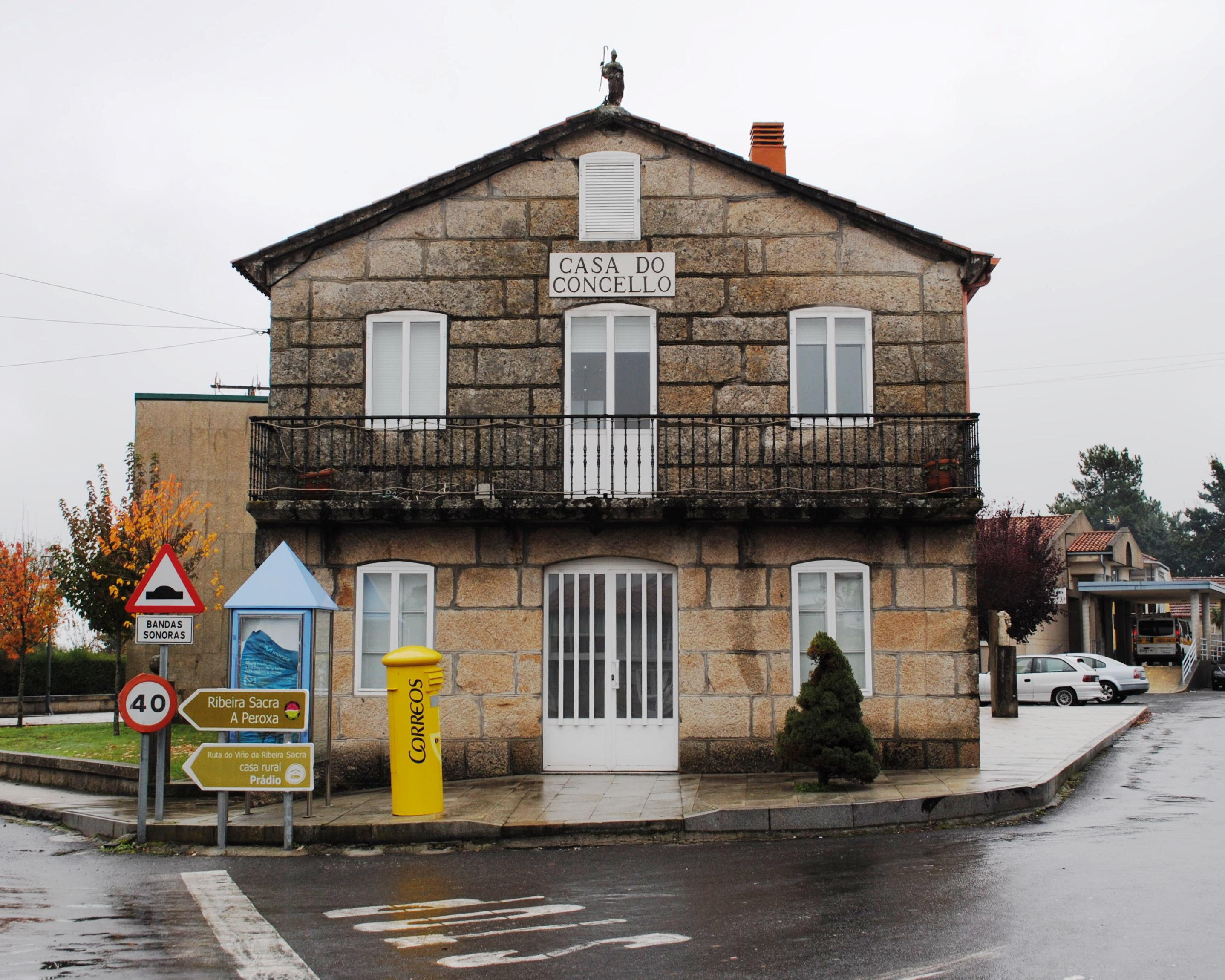 See title.